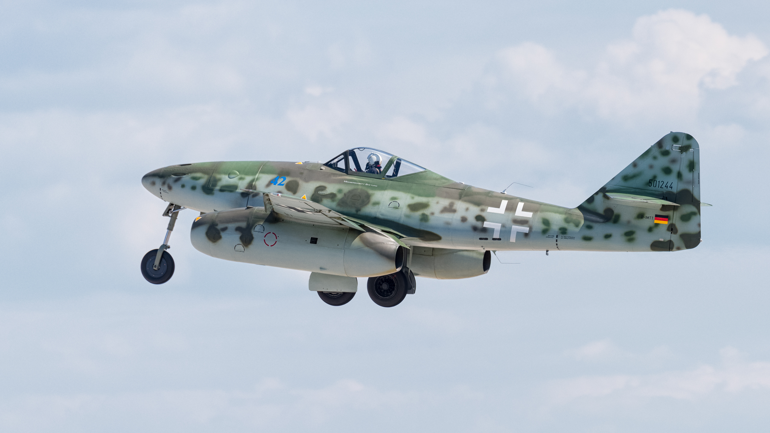 Messerschmitt Stiftung/Flugmuseum Messersschmitt Messerschmitt Me 262 B1-A replica (reg. D-IMTT, marking 501244) at ILA Berlin Air Show 2016.